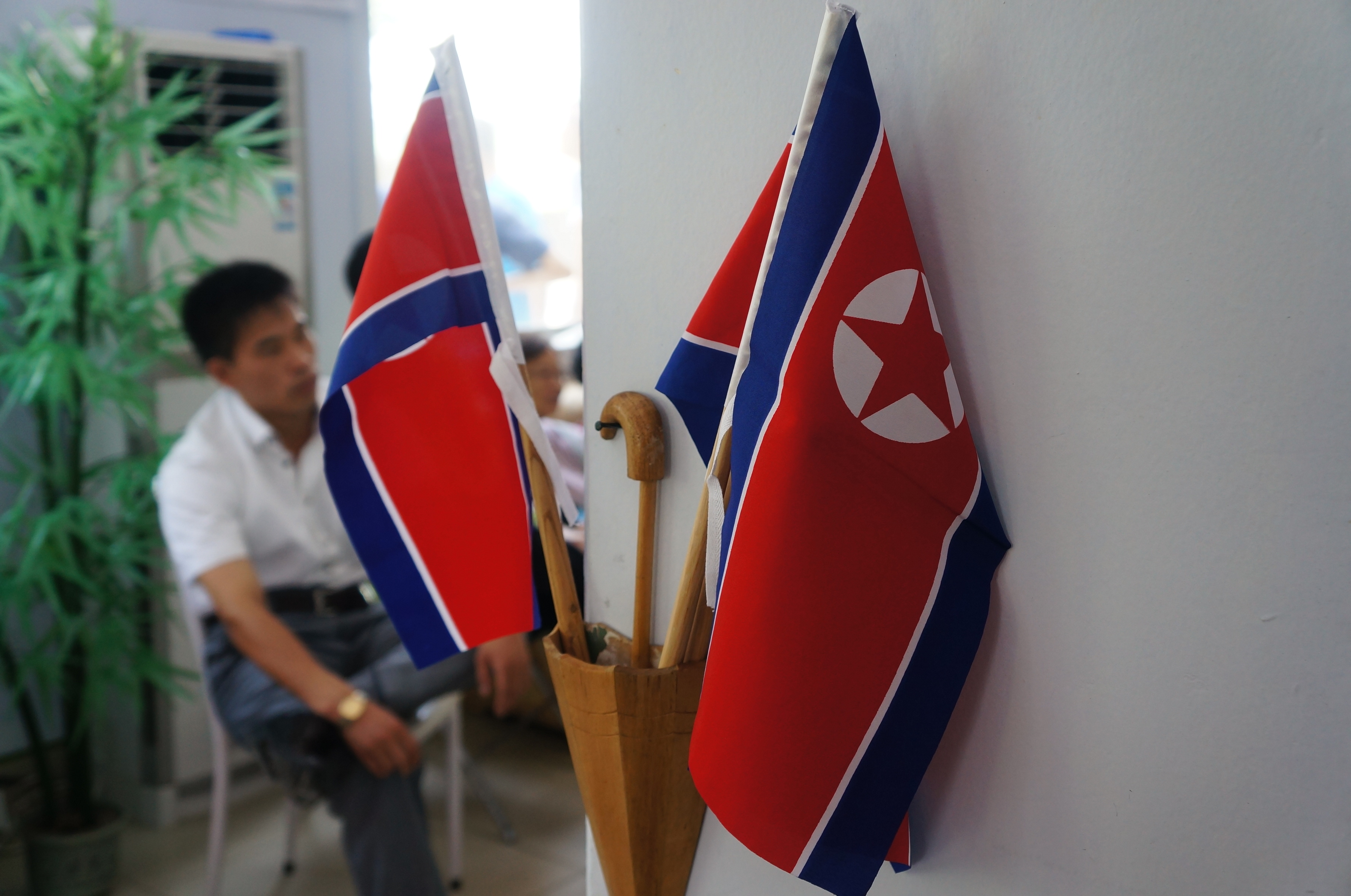 North Korean Souvenirs